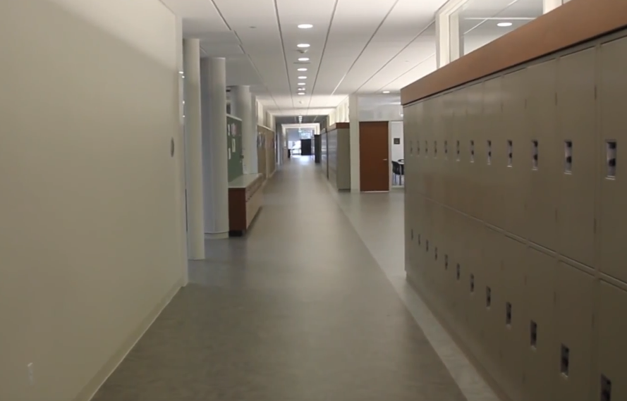 semahall